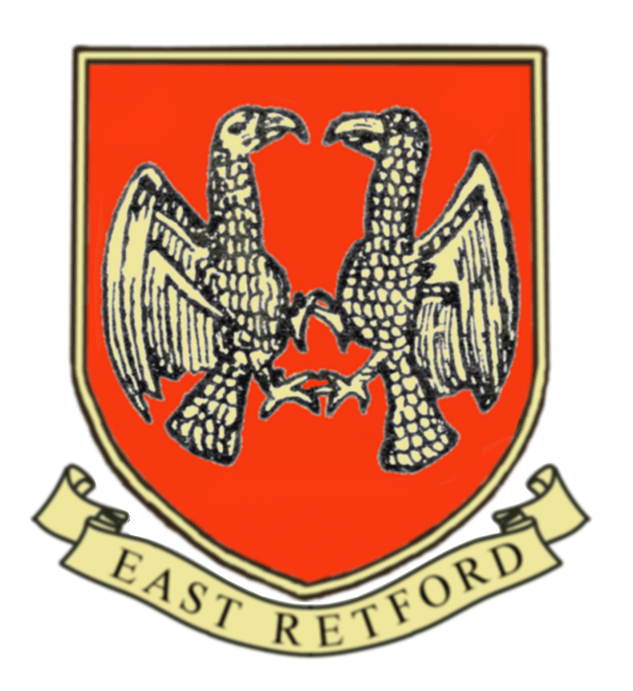 Retford Coat of Arms (hi res)